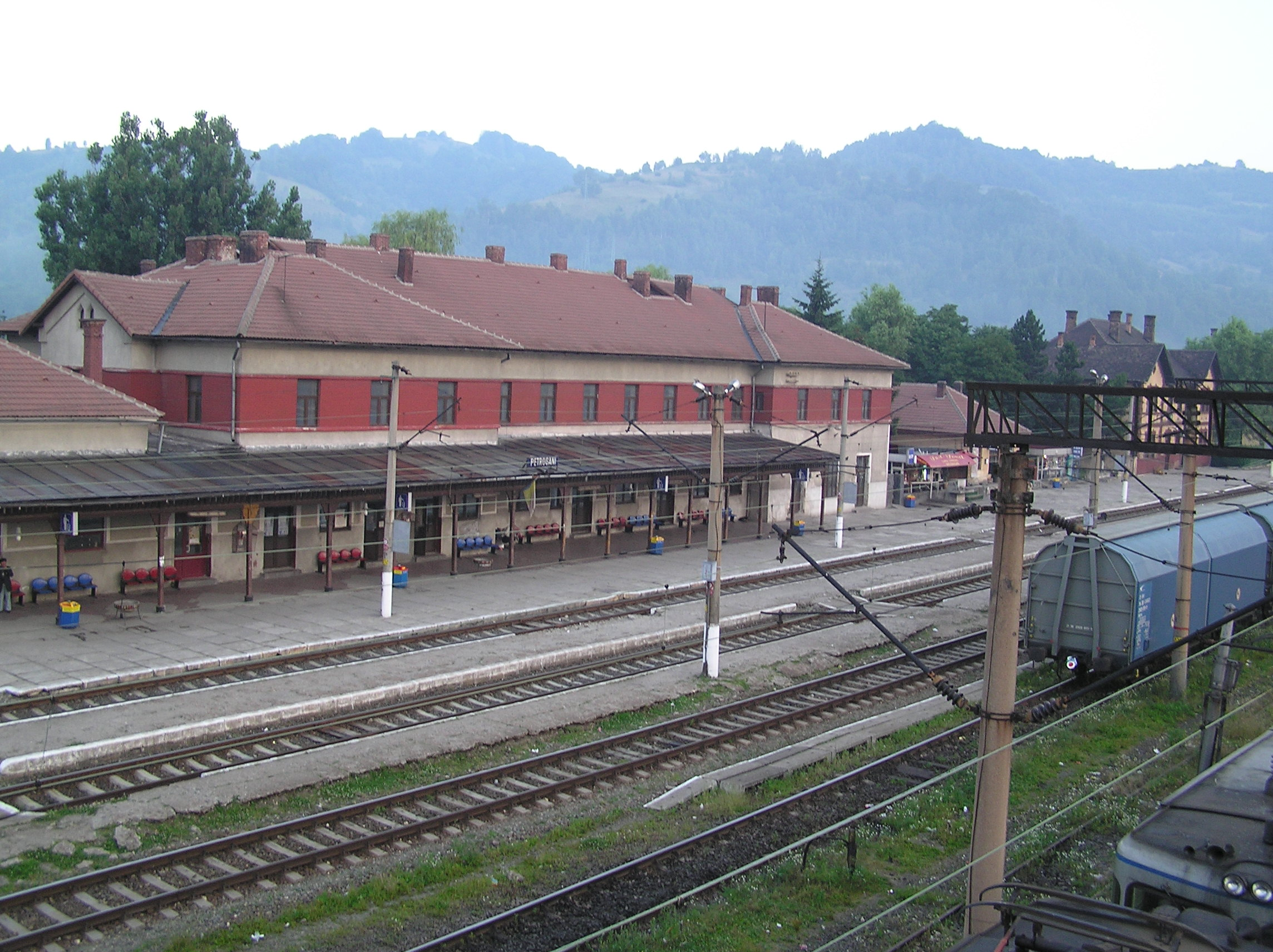 Train Station in Petrosani, Romania